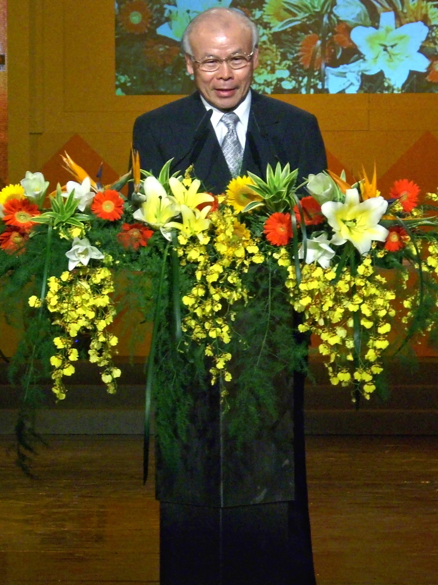 2007 Taiwan Sports Elite Awards: Chuan-shou Chen, former commissioner of Sports Affairs Council, Executive Yuan.